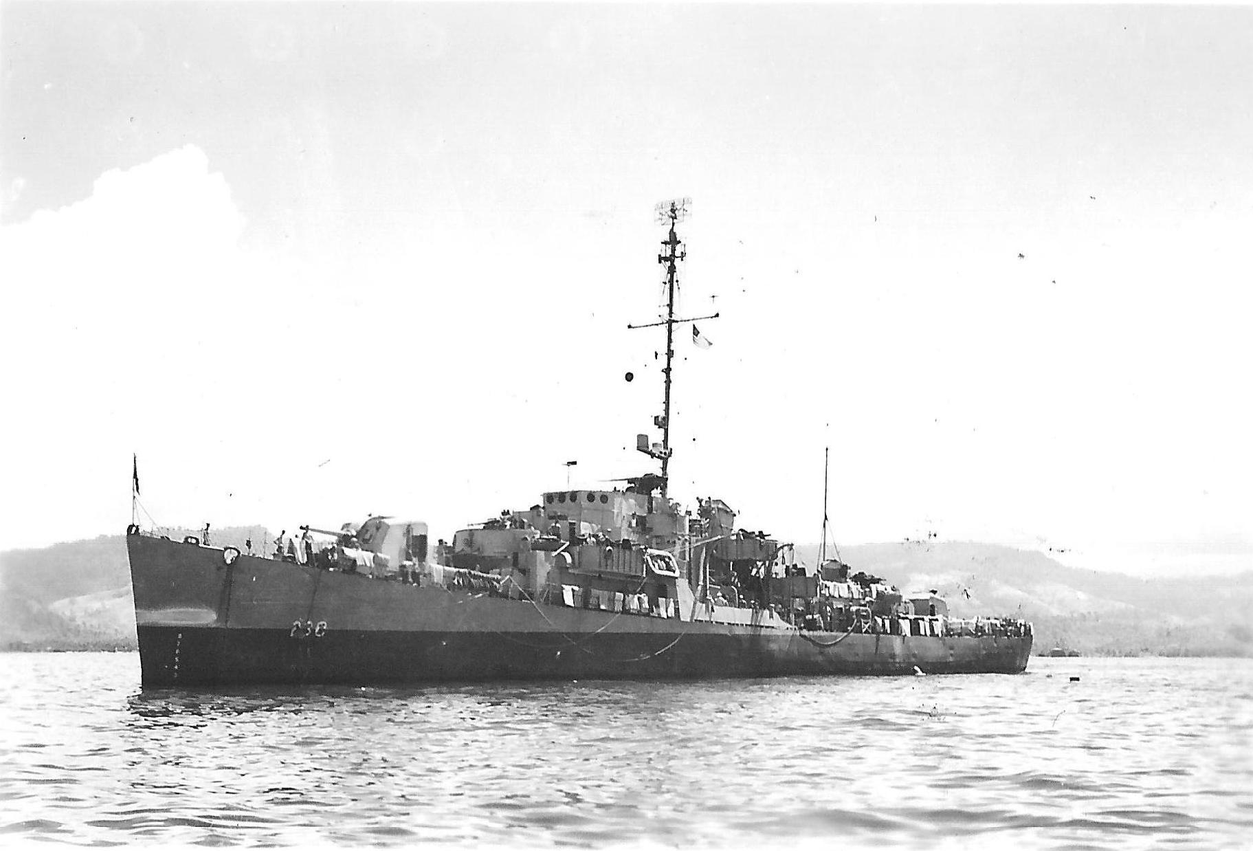 USS Chaffee at anchor